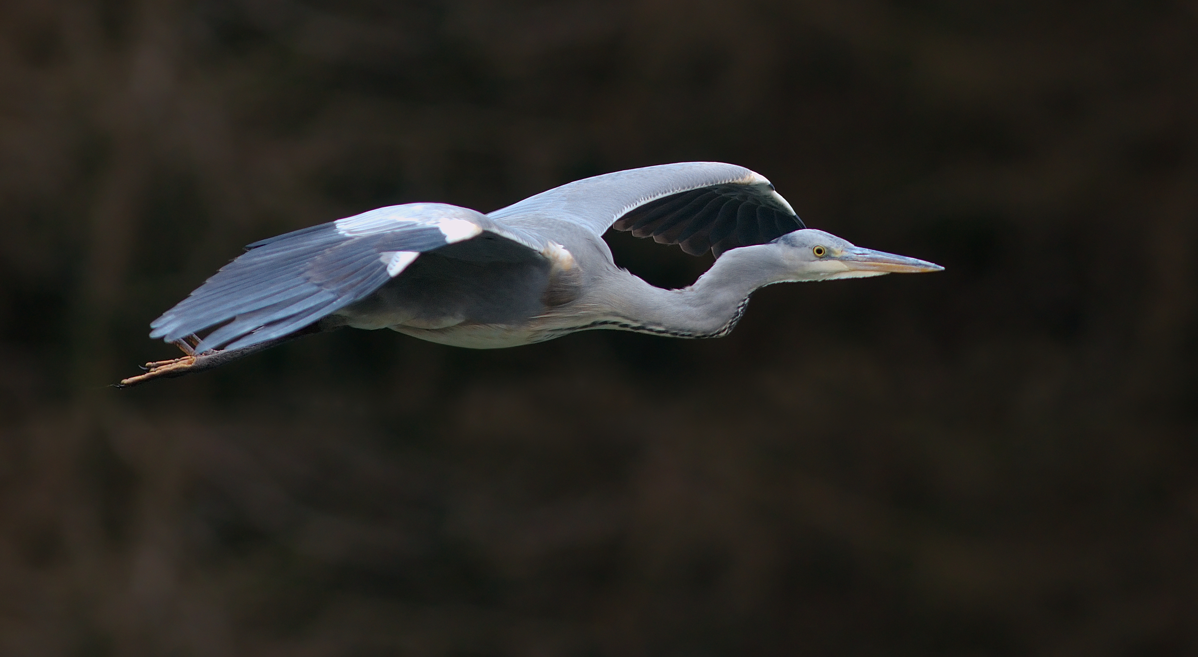 Grey Heron in flight (Ardea cinerea)